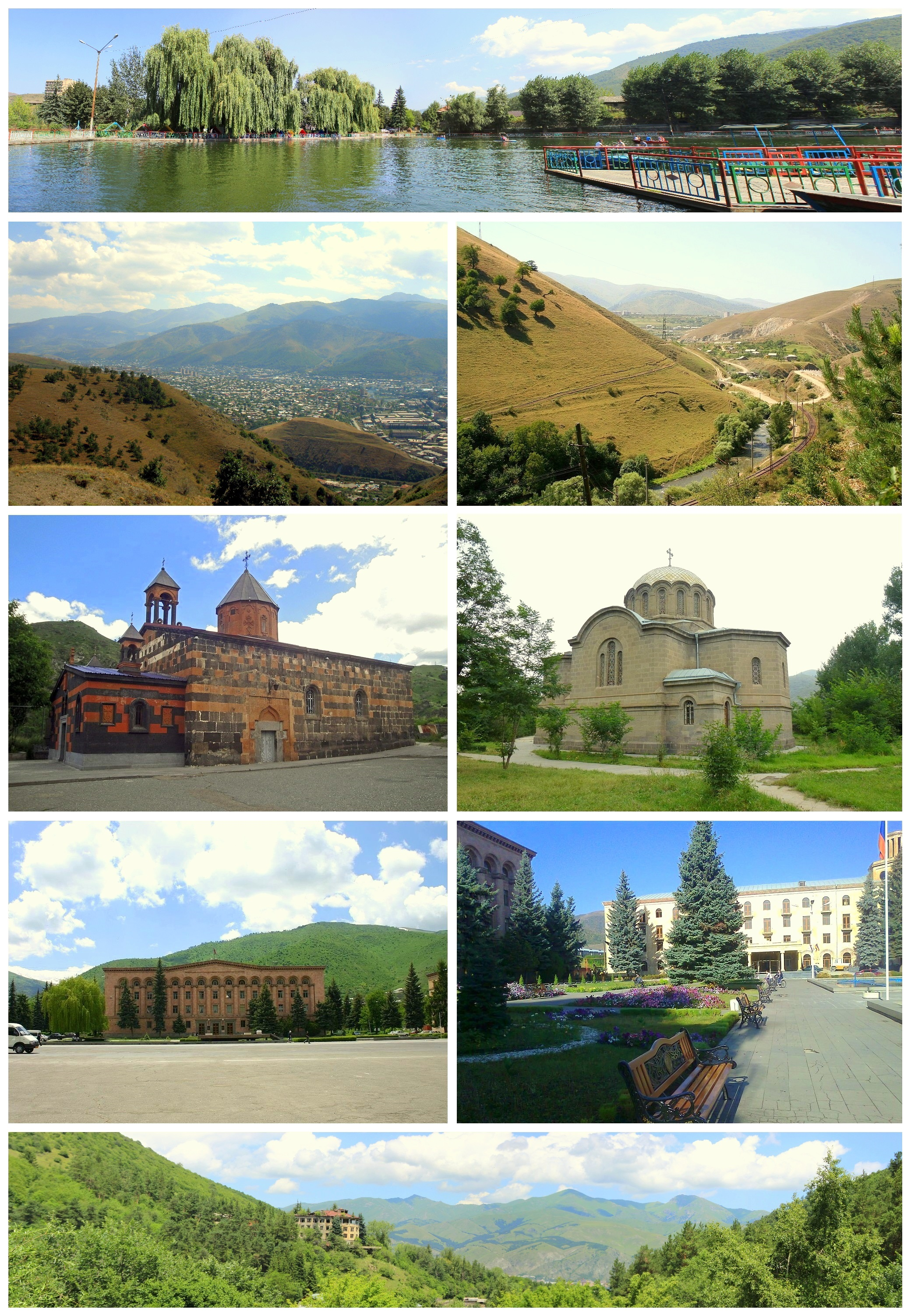 Vanadzor city landmarks, Armenia.